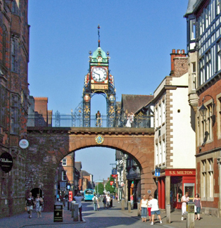 The Eastgate